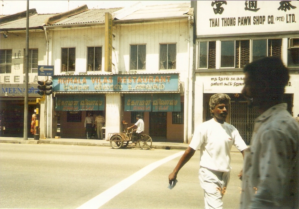 Komala Vilas Indian Restaurant along Serangoon Road, Singapore.